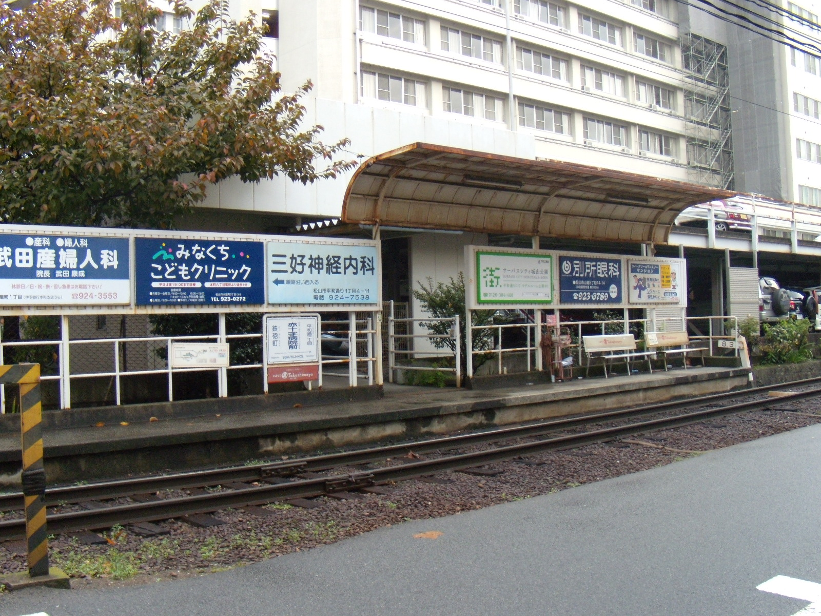 Iyo Railway Sekijuji-byoin mae Station